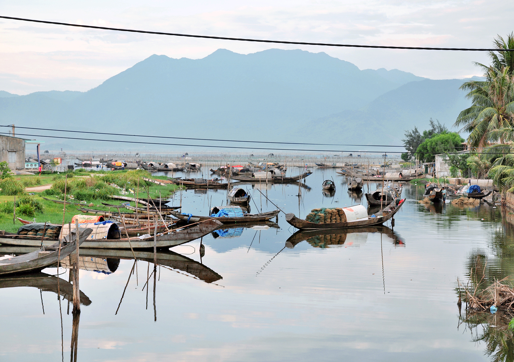 Cau Hai lagoon